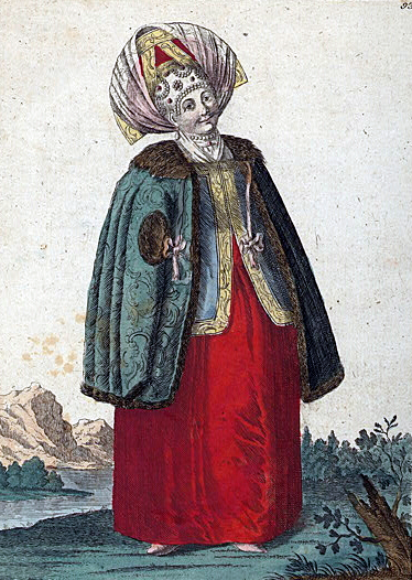 Russians, Kaluga woman in winter attire.